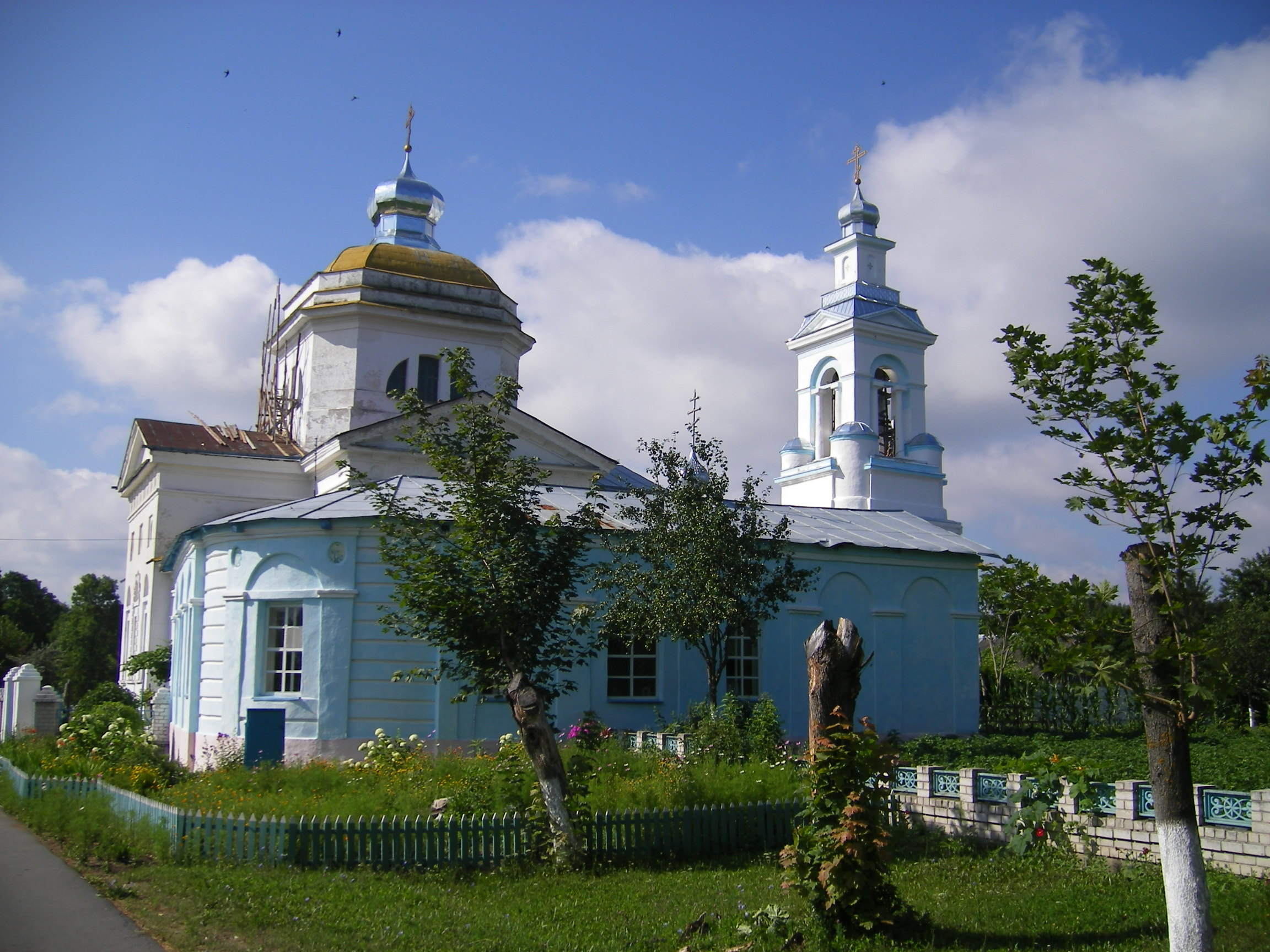 Slawharad, church of the Nativity of the Virgin Mary.